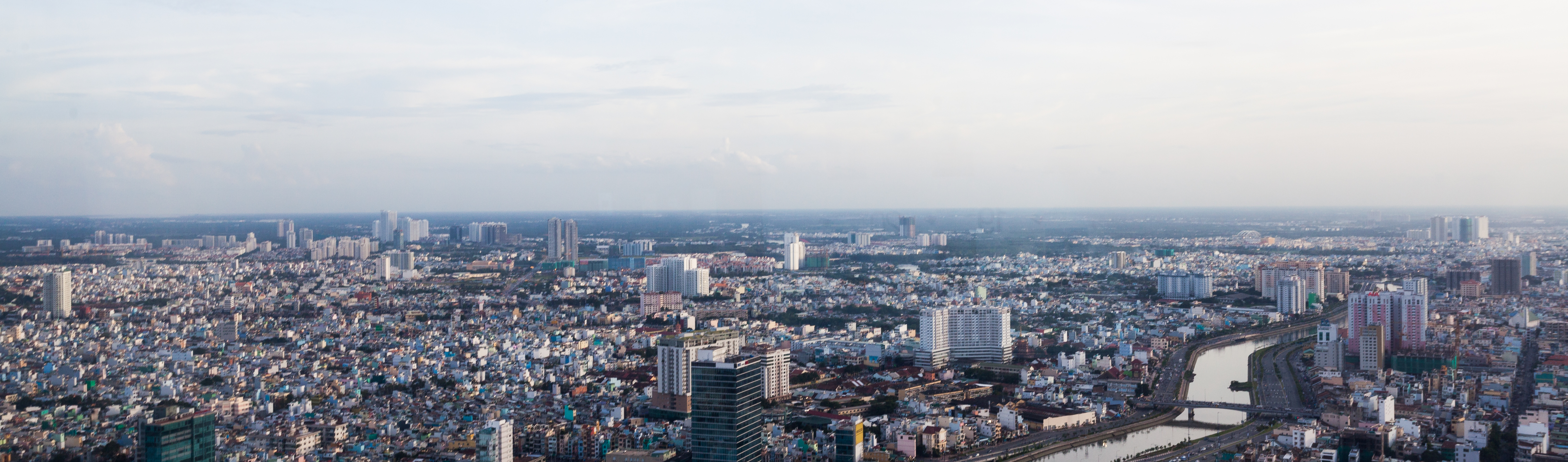 View of Ho Chi Minh City from Bitexco Financial Tower, Vietnam